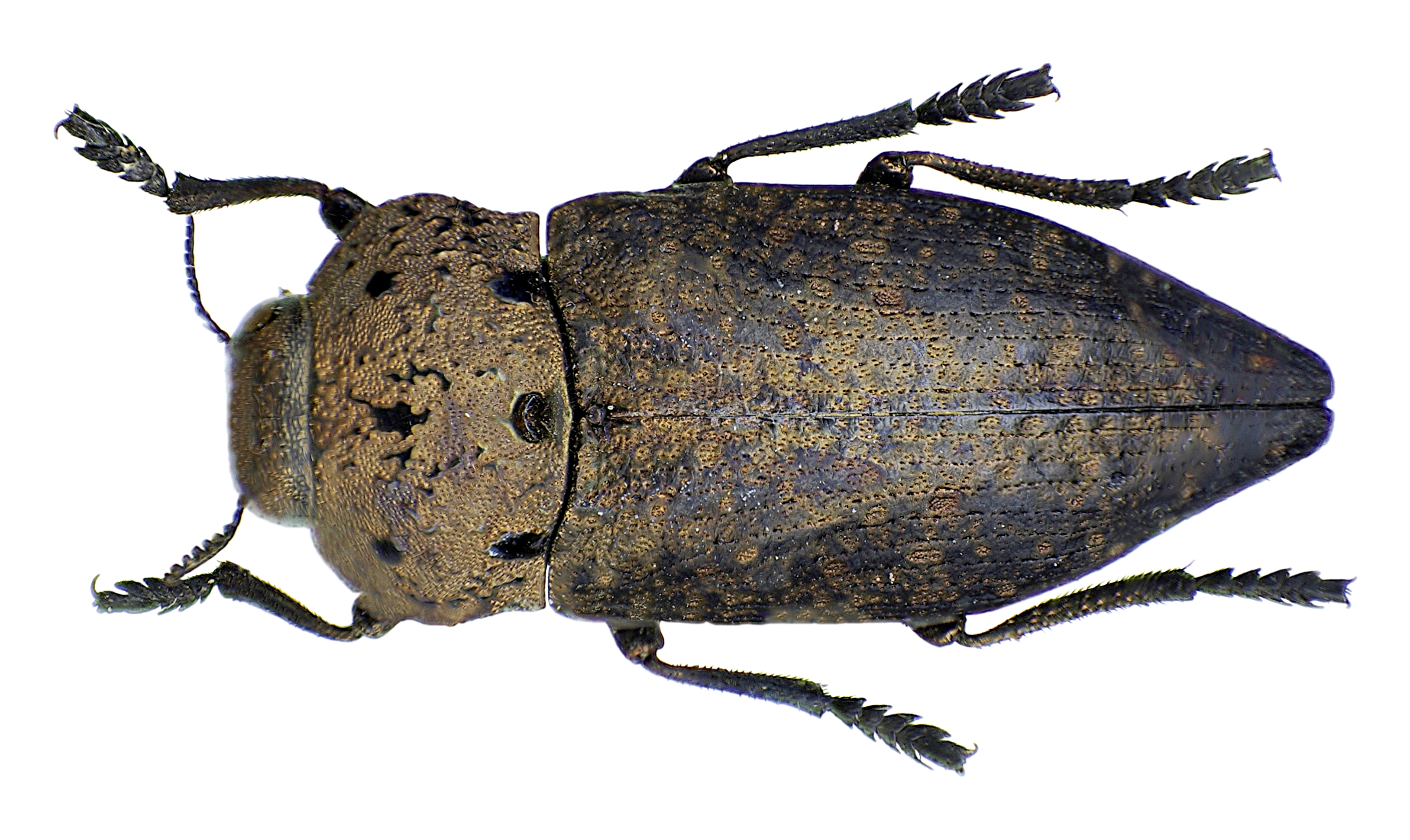 Capnodis tenebricosa from Greece